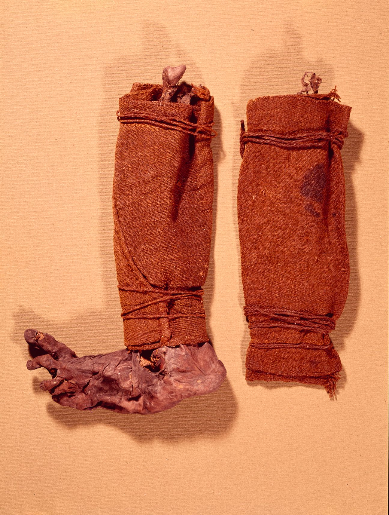 Foot of bog body Søgårds Mose Man.